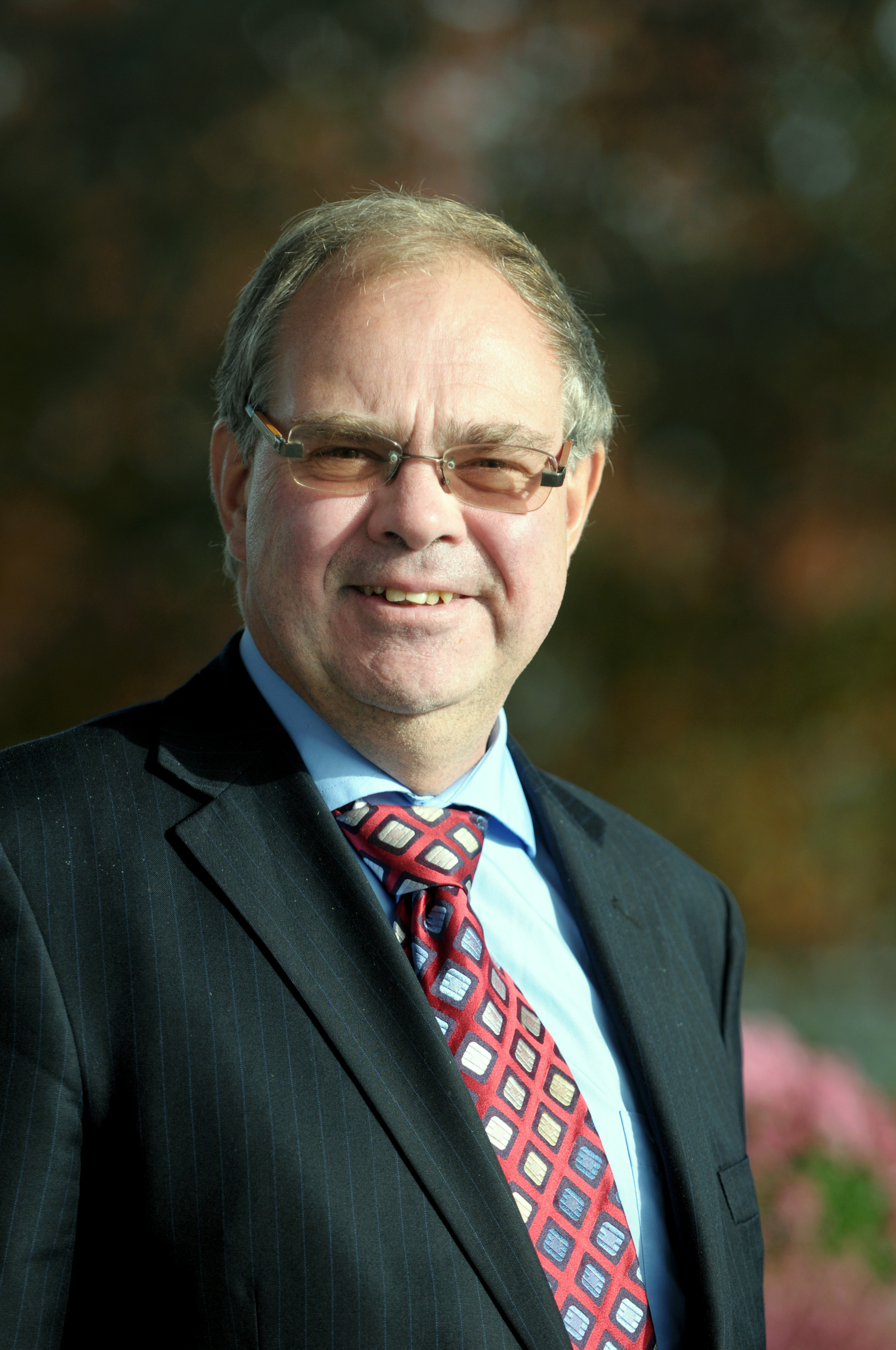 BDF Special Advisor in Stockholm, former Secretary of State of Trade Hans Jeppson. Photo by Johannes Jansson.